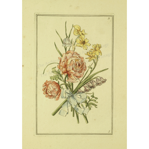 Charles Germain de Saint Aubin